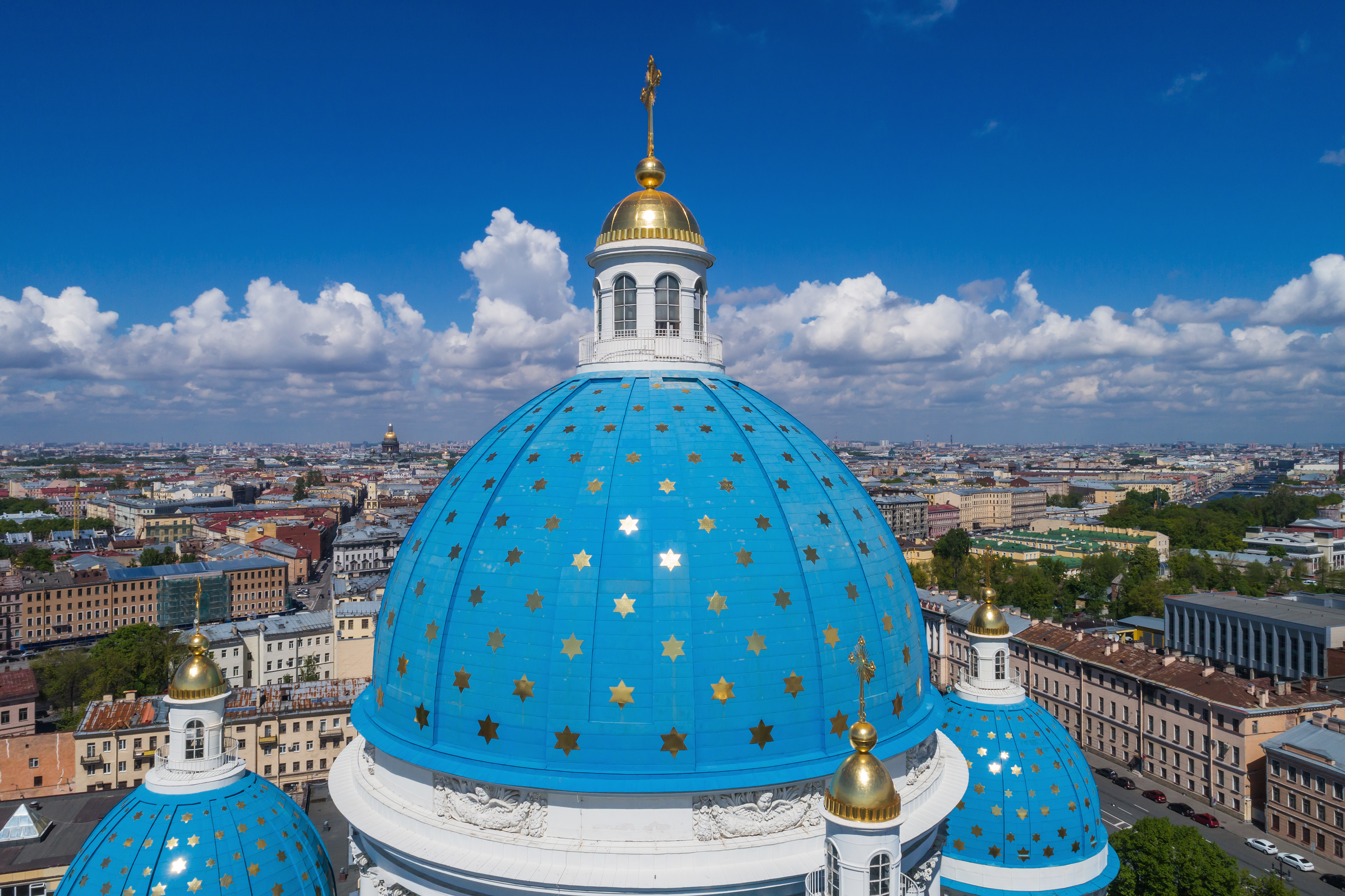 Aerial photo of the Trinity Cathedral in Saint Petersburg (Russia).